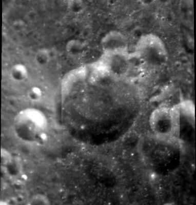 Hatanaka far side lunar crater - Clementine image